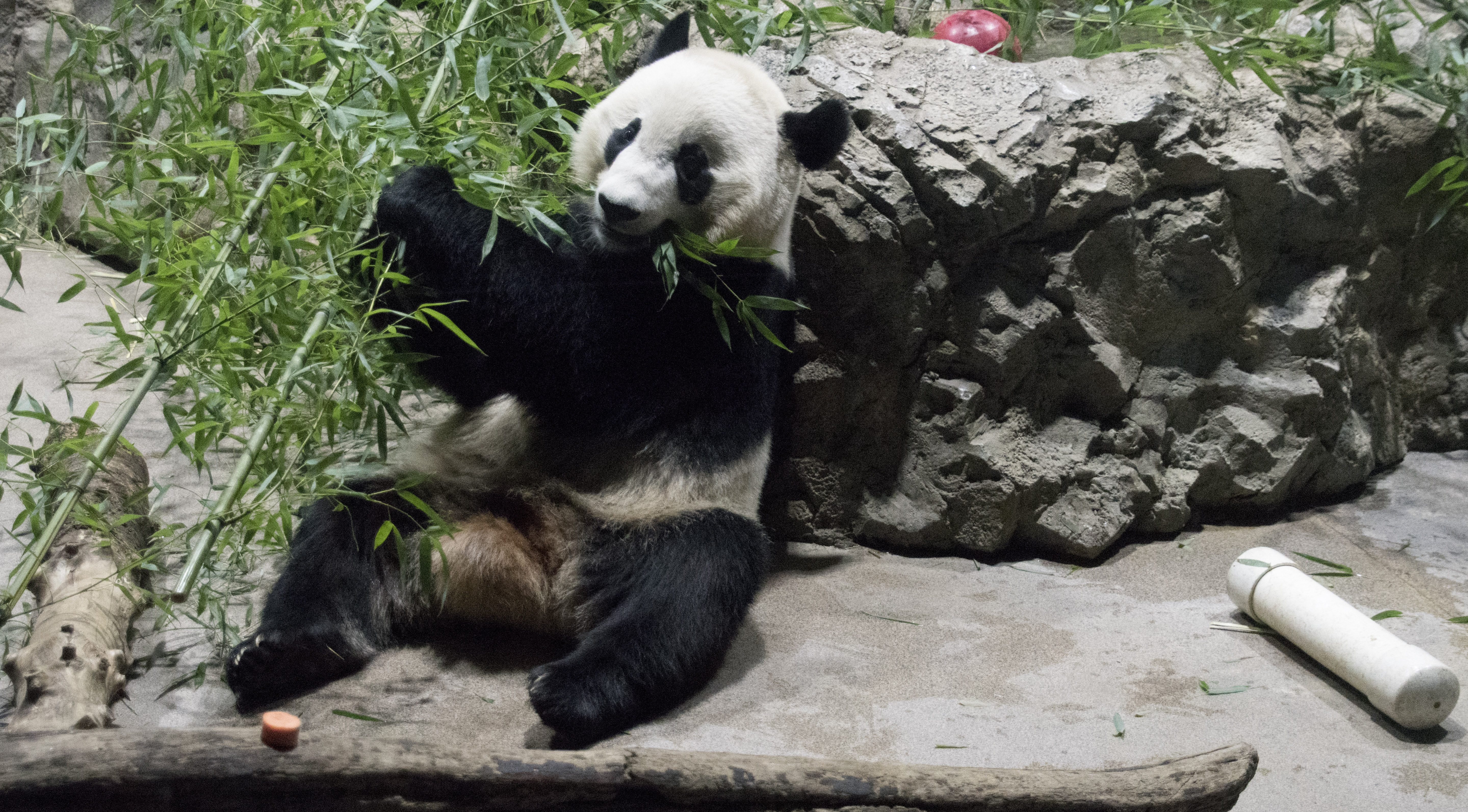 Bei Bei is a giant panda male cub who lives at the National Zoo in Washington (DC). In Chinese, Bei Bei means 'precious treasure'. He is part of US-China relations panda diplomacy and will have to be sent to the People's Republic of China at the age of 4. Bei Bei was born on August 22, 2015, together with a twin that died 4 days after their birth. His mother is Mei Xiang. His father, via artificial insemination, is also a National Zoo panda, Tian Tian. DSC_3858 V1